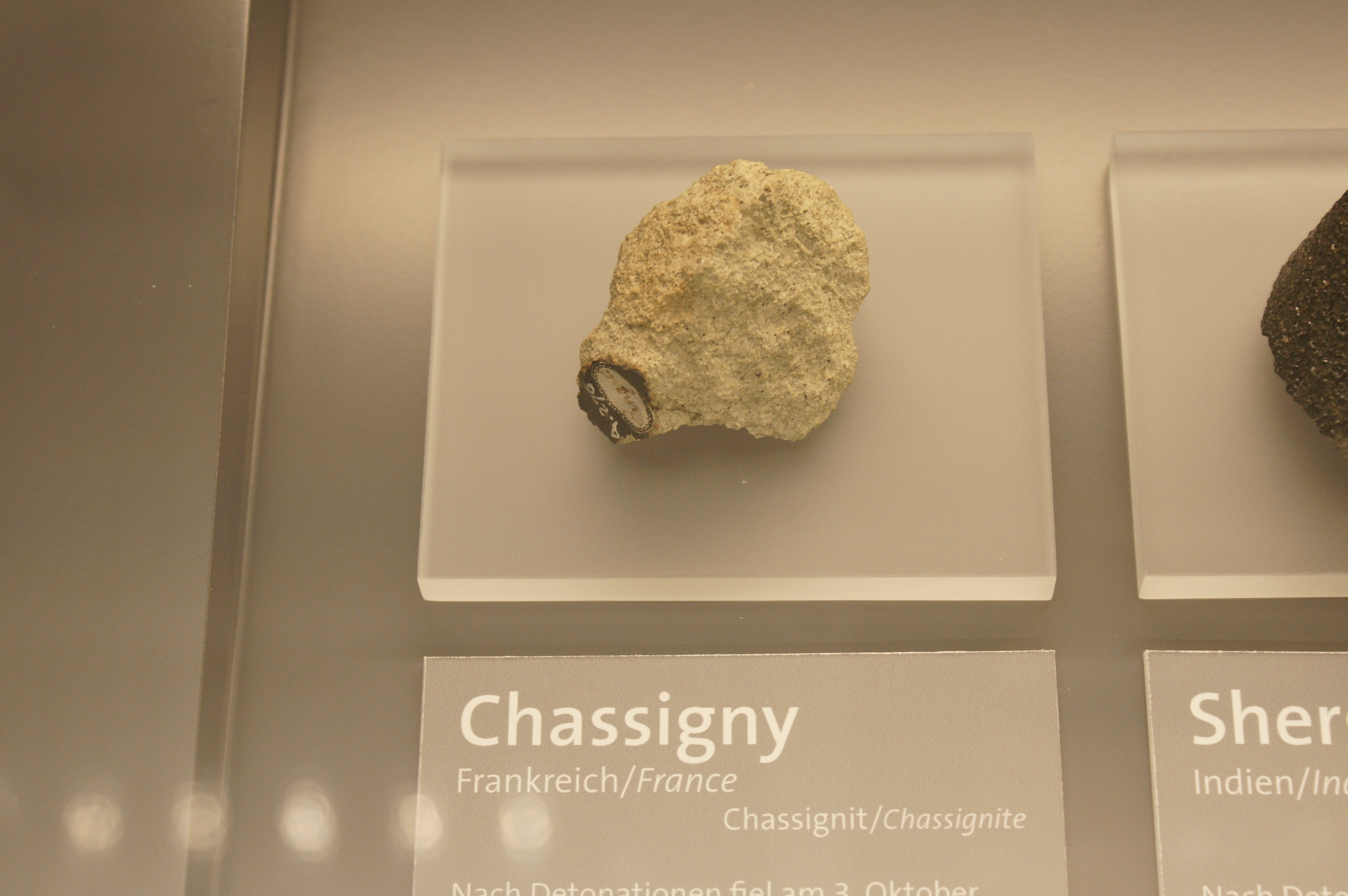 Mars meteorite rock, in Vienna science Museum.